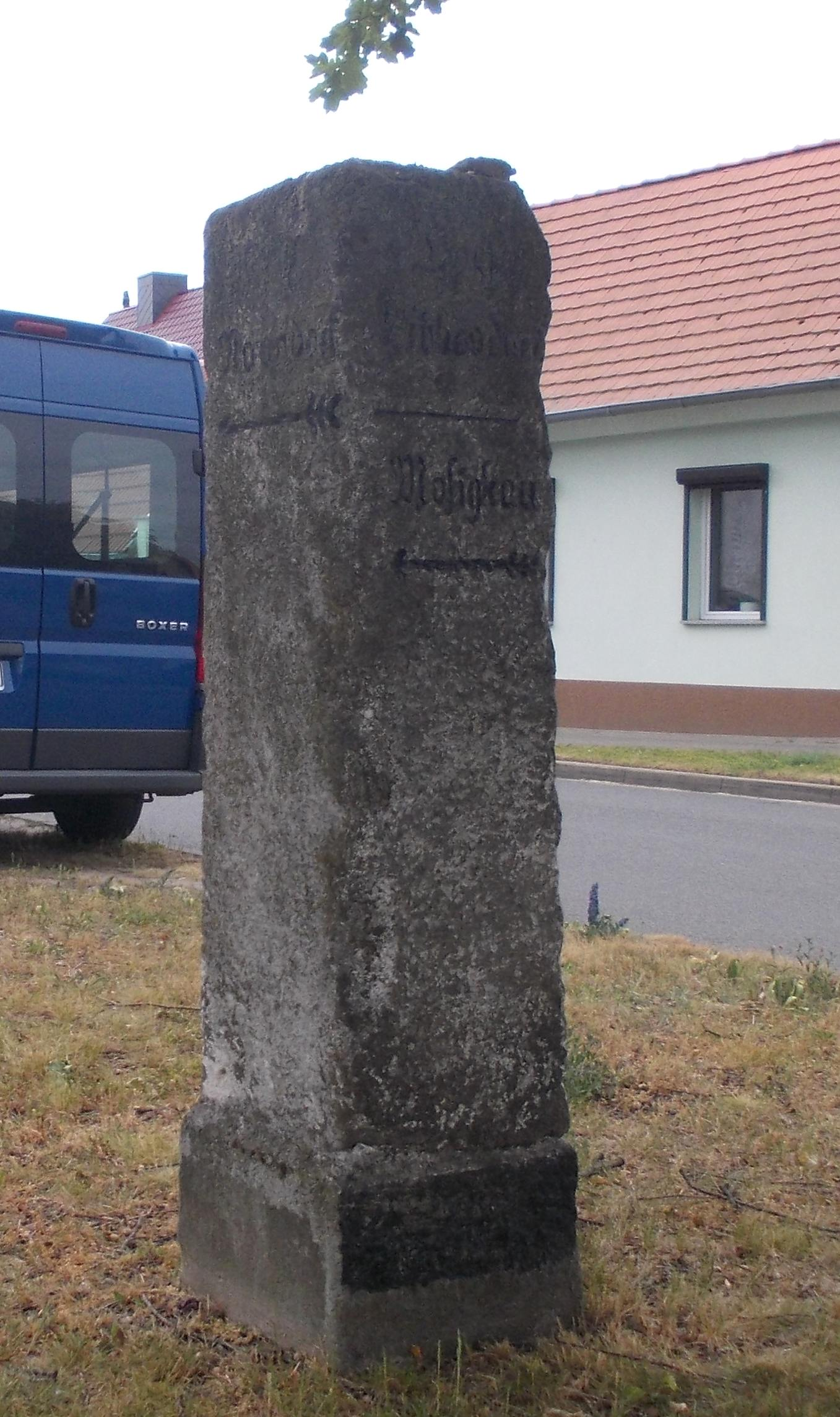 Old signpost in Libbesdorf (Osternienburger Land, Anhalt-Bitterfeld district, Saxony-Anhalt)